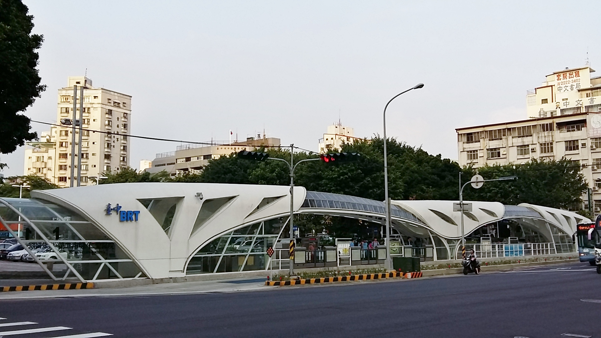 Taichung BRT Blue Line Second Market Place/Jen-Ai Hospital Station